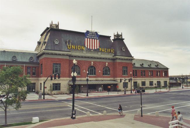 The Salt Lake City Union Pacific Depot, Salt Lake City, Utah. Taken by me in 2002.